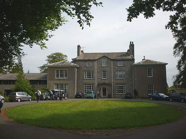 Photograph of Hyning Priory, Waron, Lancashire